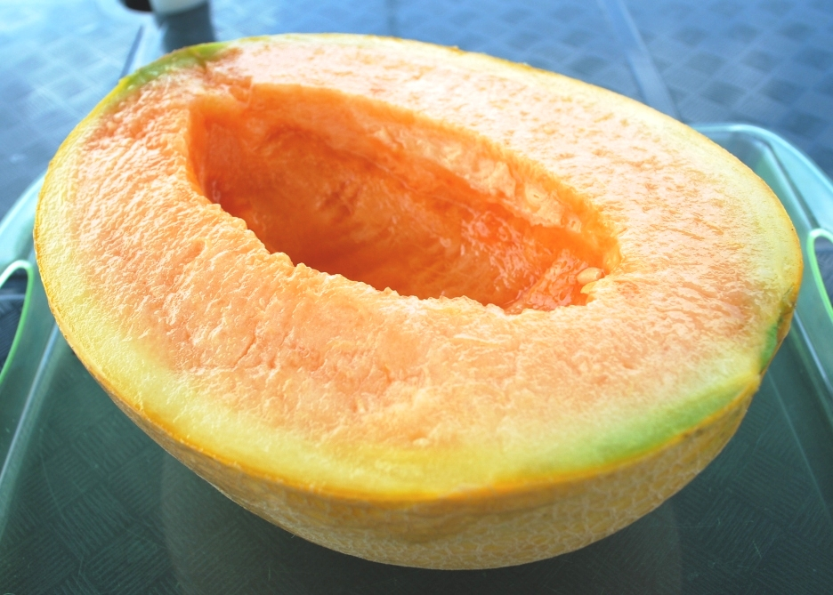 Half_cut_of_Yubari_melon